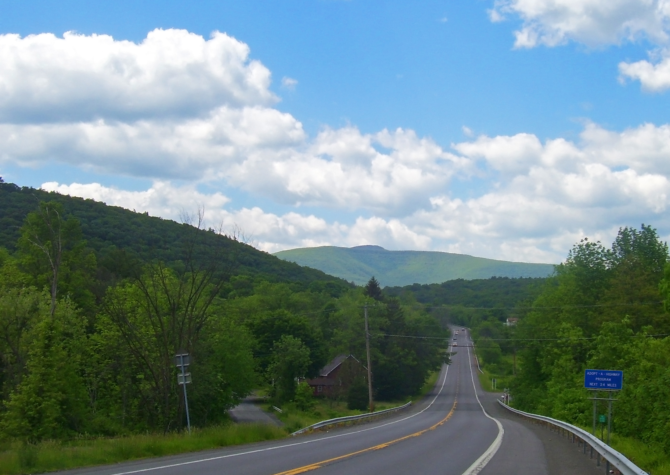 View west along northbound NY 32 as it approaches the Catskill Escarpment in Saugerties, NY, USA. Kaaterskill High Peak is in background